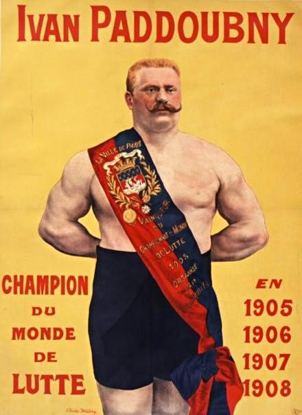 Poster of Ivan Poddubny